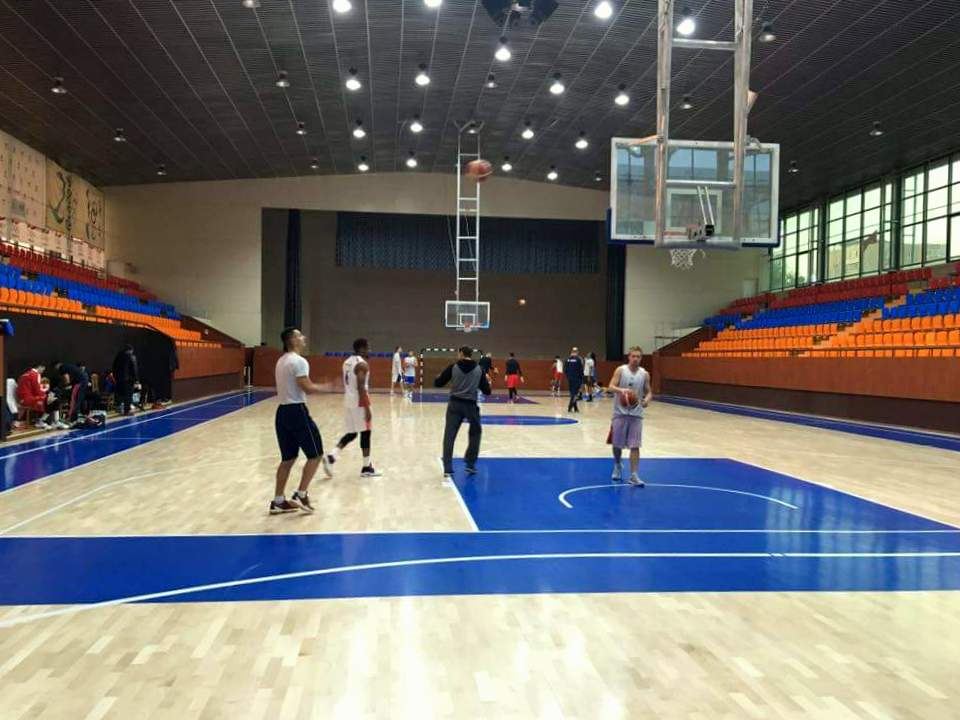 Mika Arena, BC Urartu, Yerevan